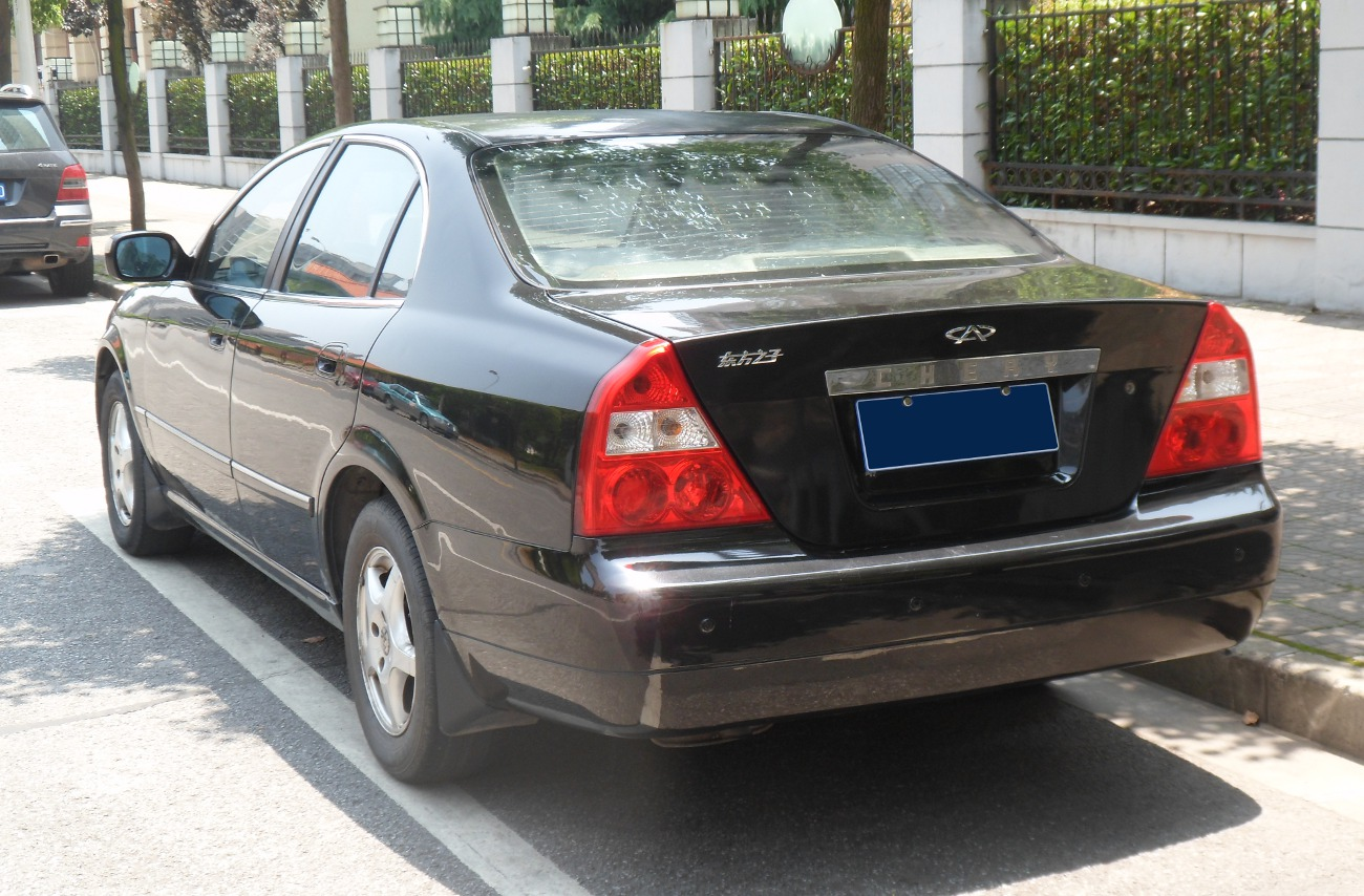 Chery Eastar facelift photographed in Shanghai, China.